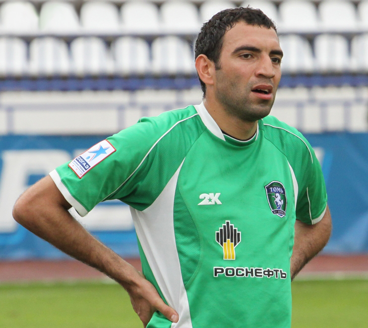 Anton Khazov with FC Tom Tomsk